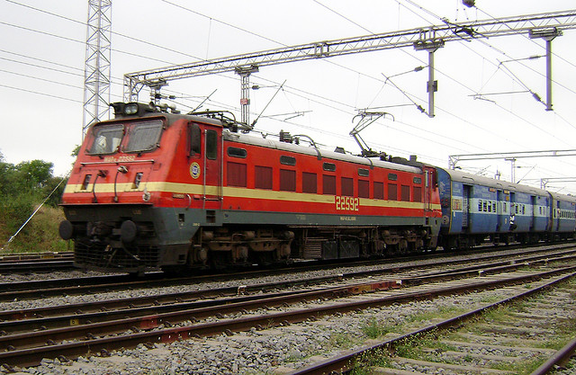 Goutami Express at Moulaali towards Secunderabad from Kakinada